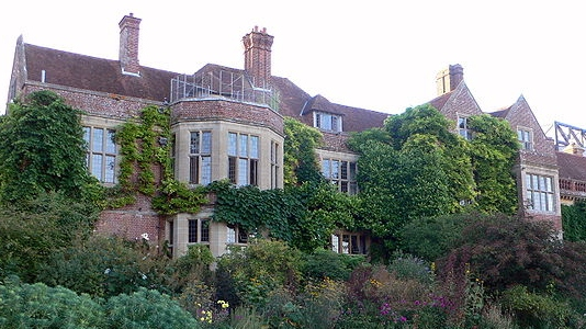 Cropped image of Glyndebourne 1.jpg, showing the house only